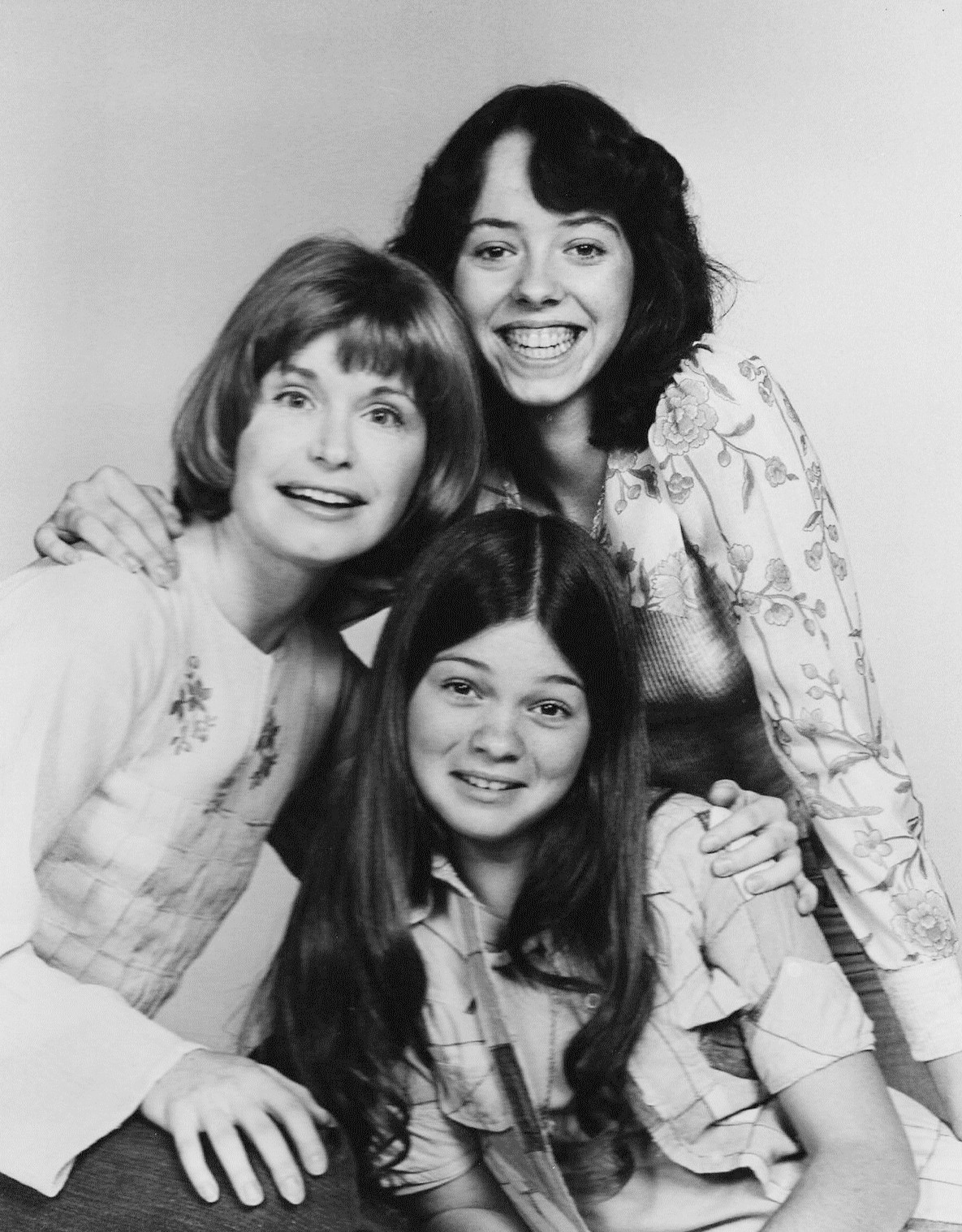 Photo of the female cast members of the television series One Day at a Time. Clockwise from left: Bonnie Franklin (Ann Romano), Mackenzie Phillips (Julie Cooper), and Valerie Bertinelli (Barbara Cooper).